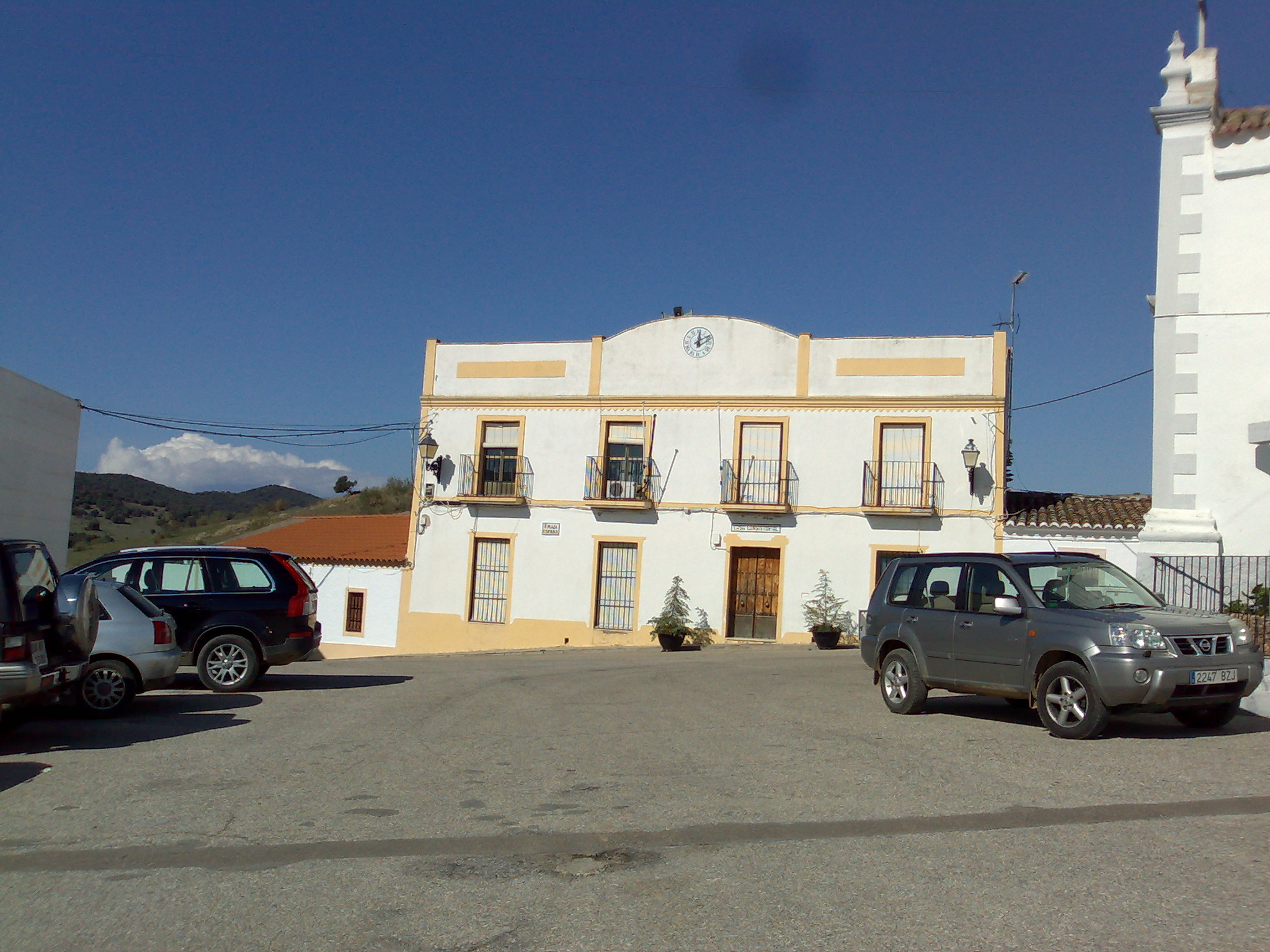 Táliga